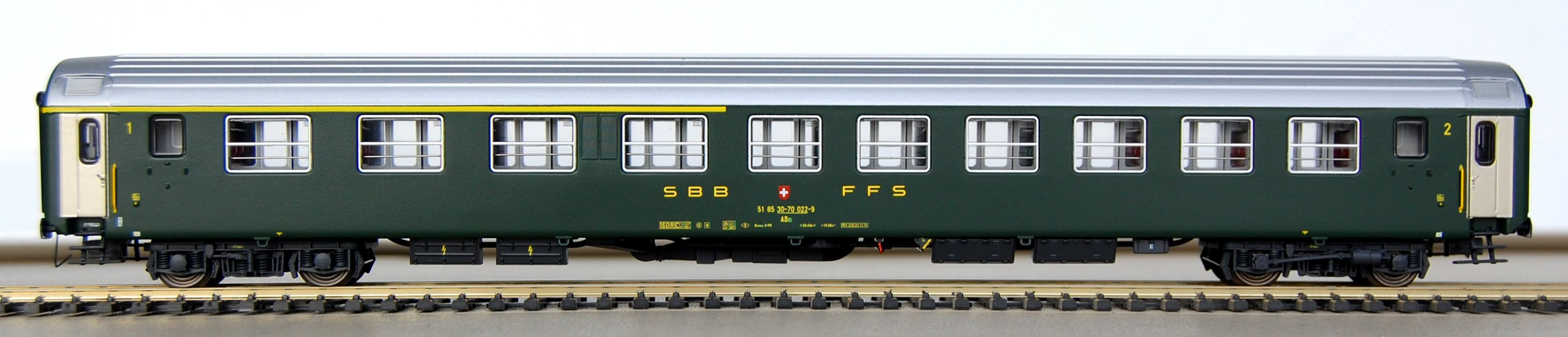 ABm coach of the SBB derived from UIC-X coaches with 4 1st class and 6 2nd class compartments; scale model by LS Models, ref. 47215.